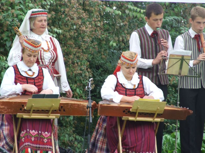 Lithuanian dance troupe "Rasa" in the 19th International Folk Dance Festival